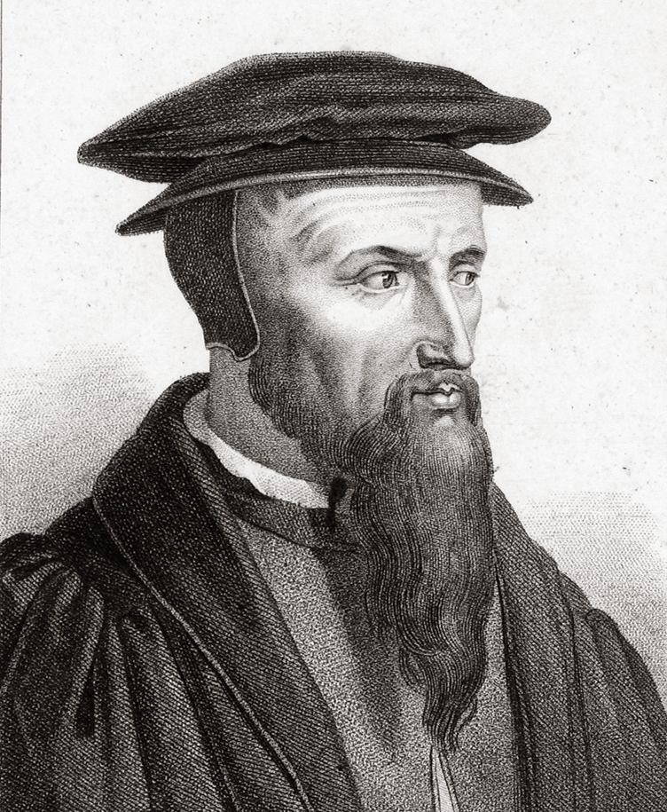 John Calvin